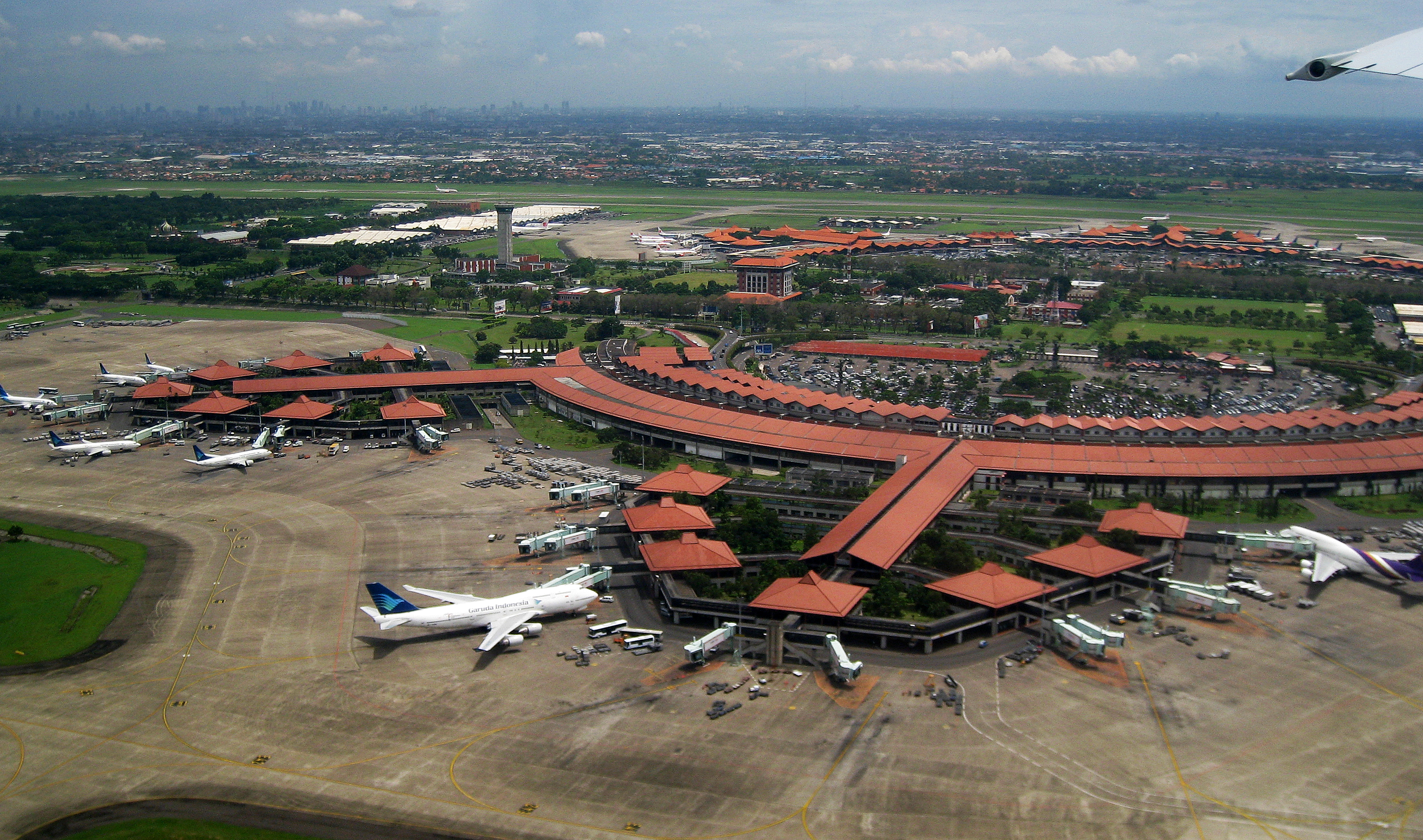 Aerial view of Soekarno-Hatta International Airport, Jakarta (edited horizon). The view taken in 1 February 2010 from Garuda Indonesia airplane during take-off. The architecture reflect Indonesian vernacular architecture of Javanese Joglo roof with Pendopo as gate lounges (waiting hall) surrounded with tropical gardens.